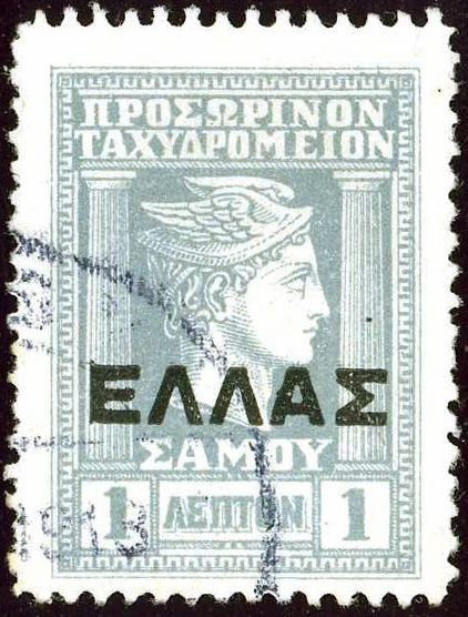 1 lepton Samos issue 1912, overprinted ELLAS during the 1912 Balkan war between Greece and the Ottoman Empire. Yvert N°9.